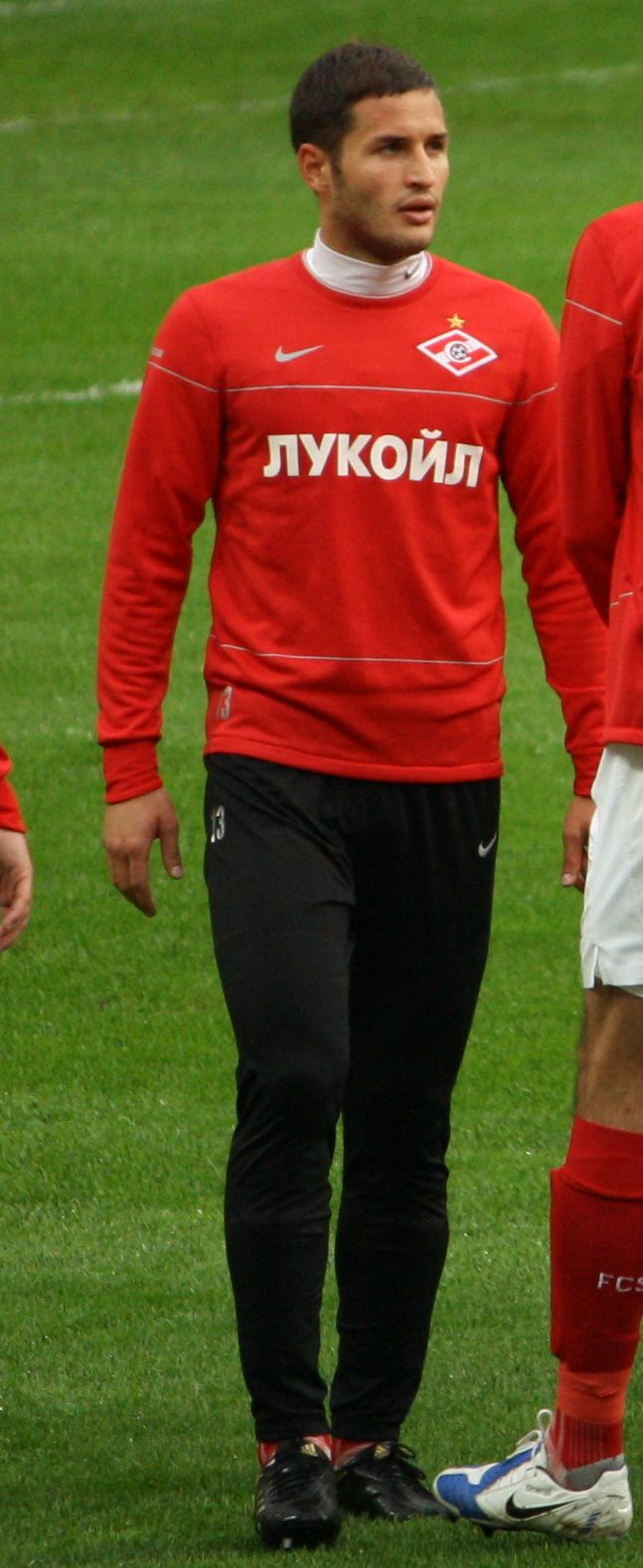 Feodor Kudryashov